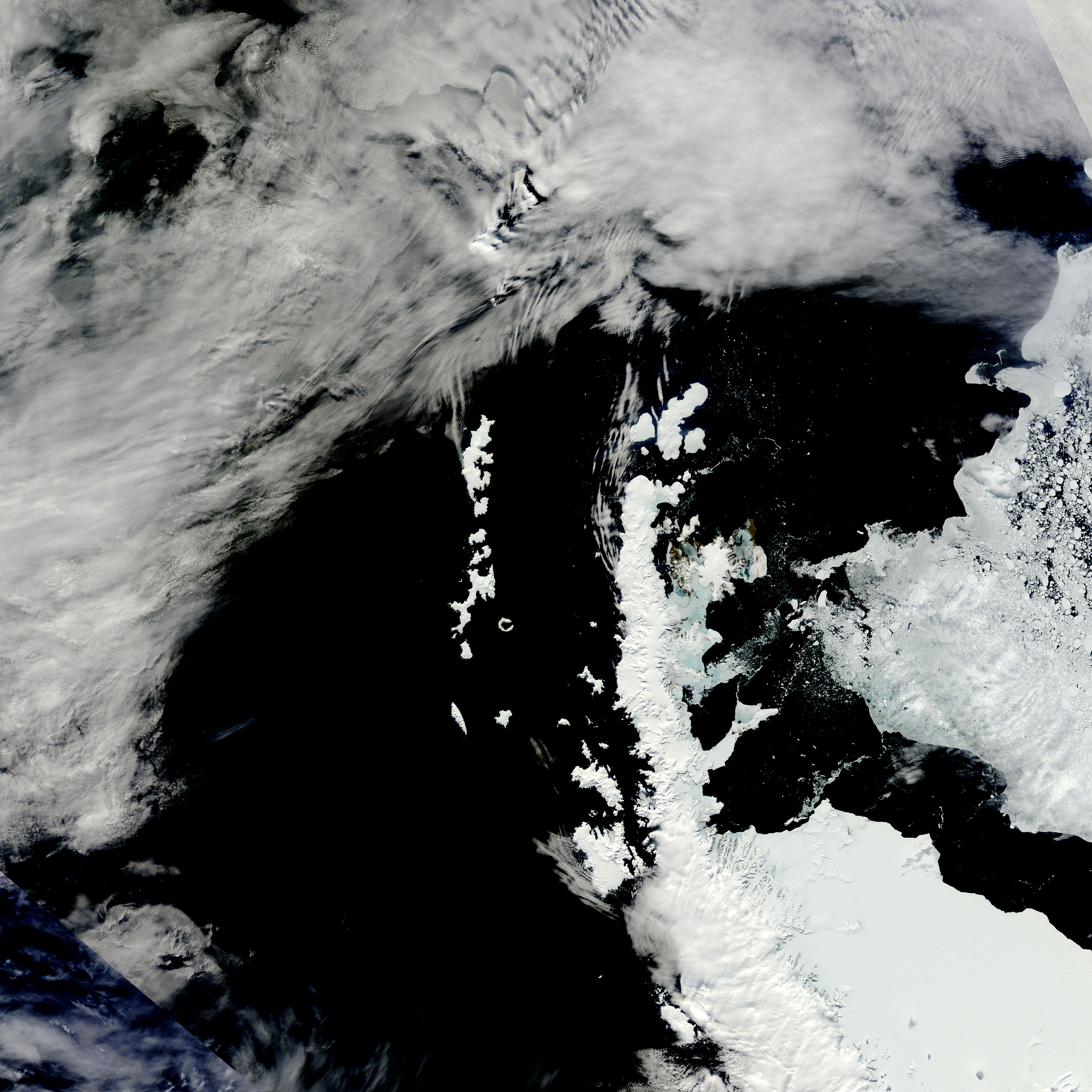 Nearly cloud-free view of the northern tip of the Antarctic Peninsula. The peninsula and the surrounding islands are rapidly loosing the shield of sea ice that surrounds them in the winter. Winds are blowing from the west, pushing the sea ice east, towards the lower right corner of the image. The east-blowing winds (westerly winds) channelled down the mountains, bringing warmer air to the east side of the peninsula. The remaining sea ice around the James Ross, Seymour, and Snow Hill Islands melted in response. The water-saturated ice is pale blue.